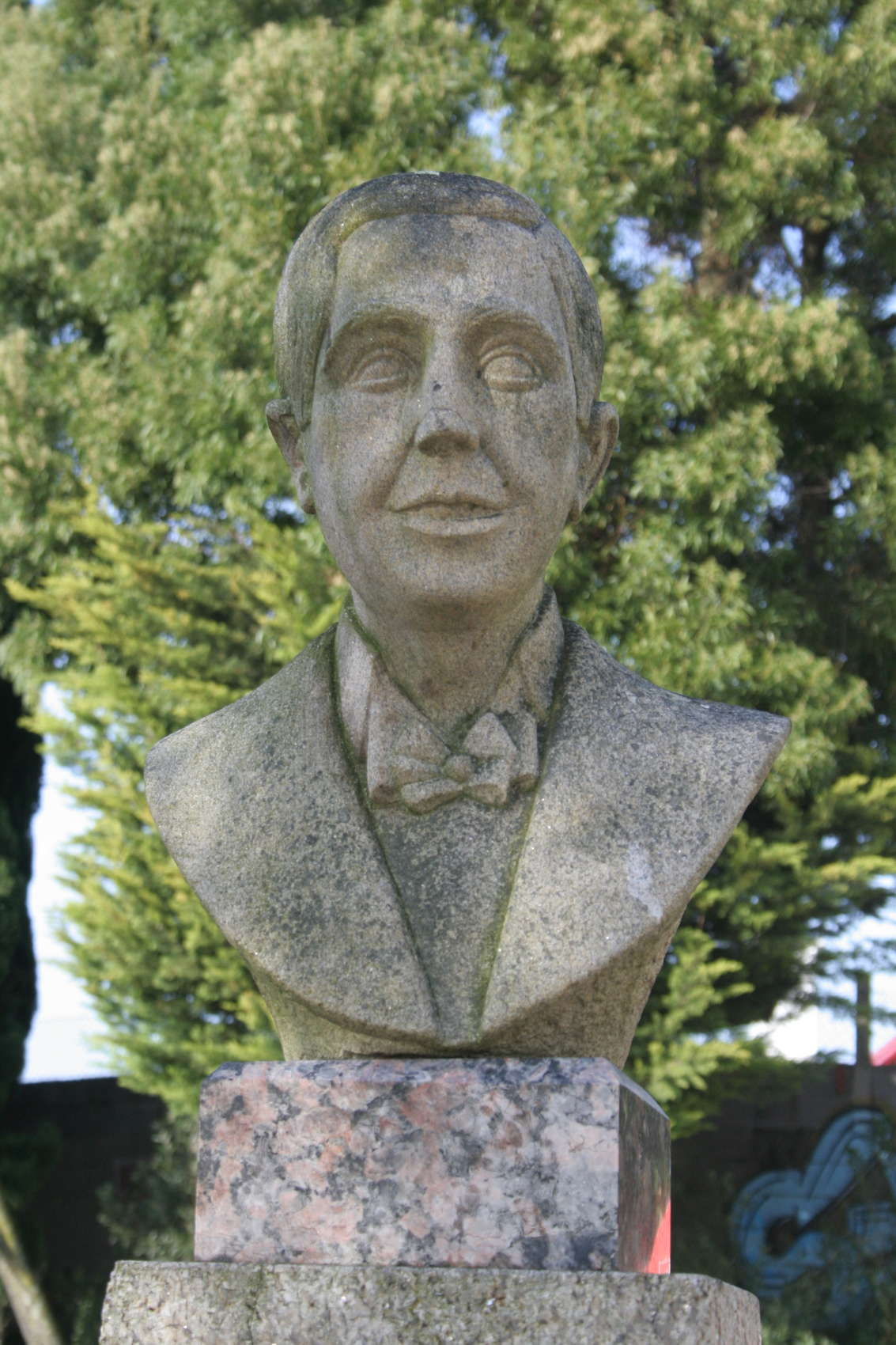 Monument to Carlos Gardel by Raúl Comesaña